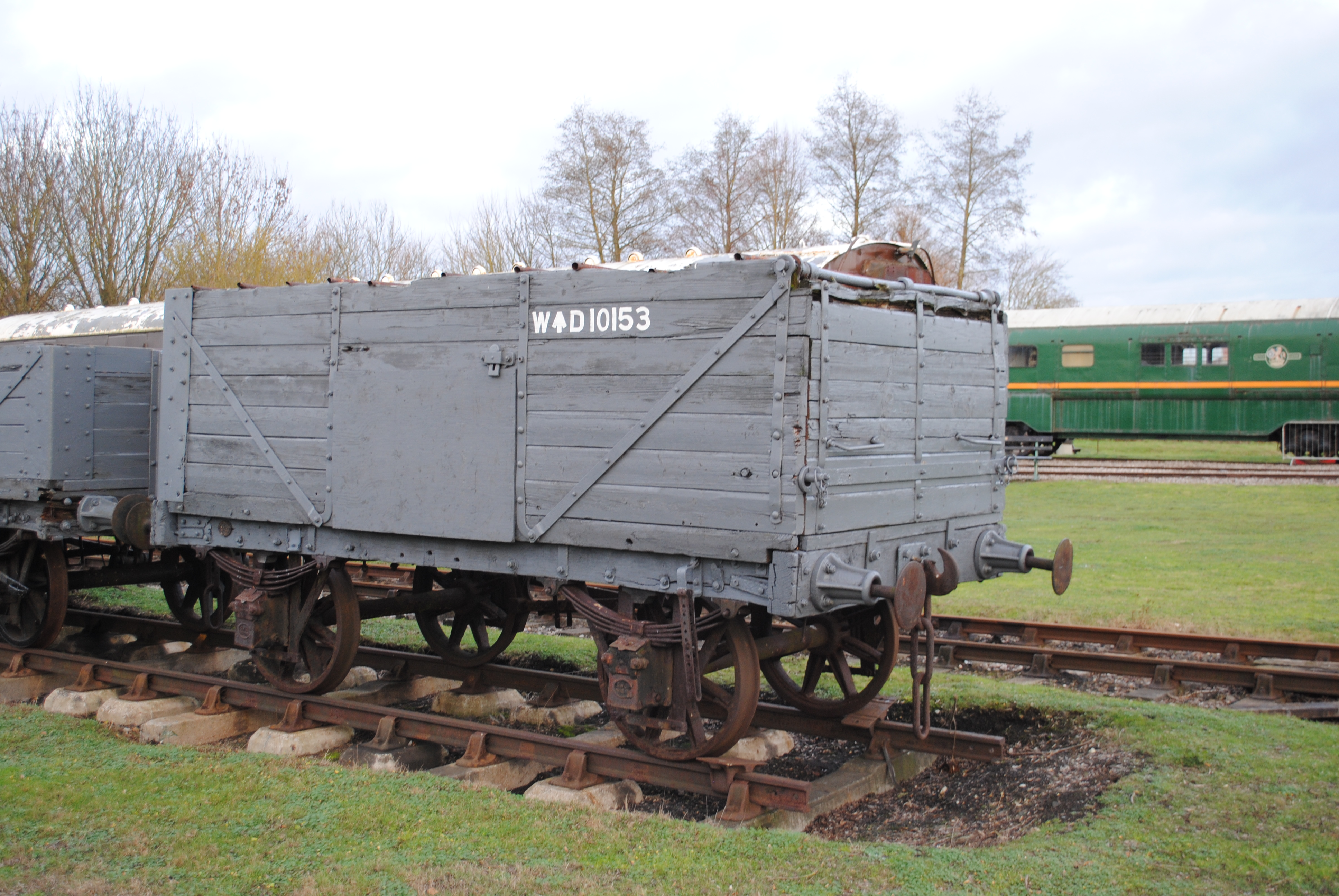 The only known Taff Vale Railway wagon still in existence, No. 10153, in a semi-restored condition at Didcot Railway Centre.